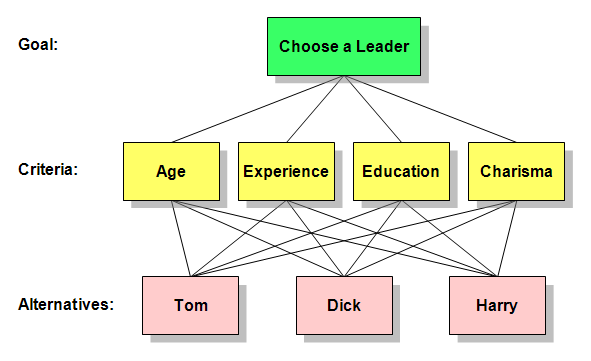 Illustration for Analytic Hierarchy Process article, drawn by me and released to the public domain. This is its first publication.